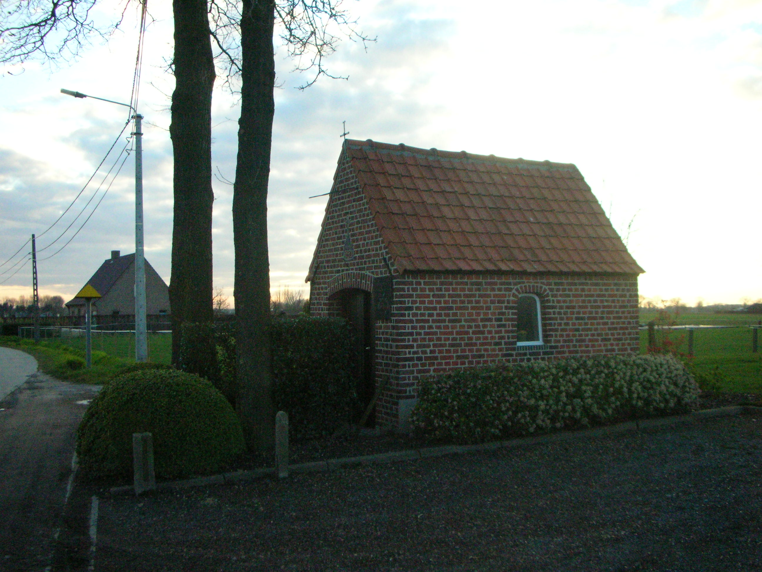 Bomkapelle chapel in Koolskamp. Koolskamp, Ardooie, West Flanders, Belgium